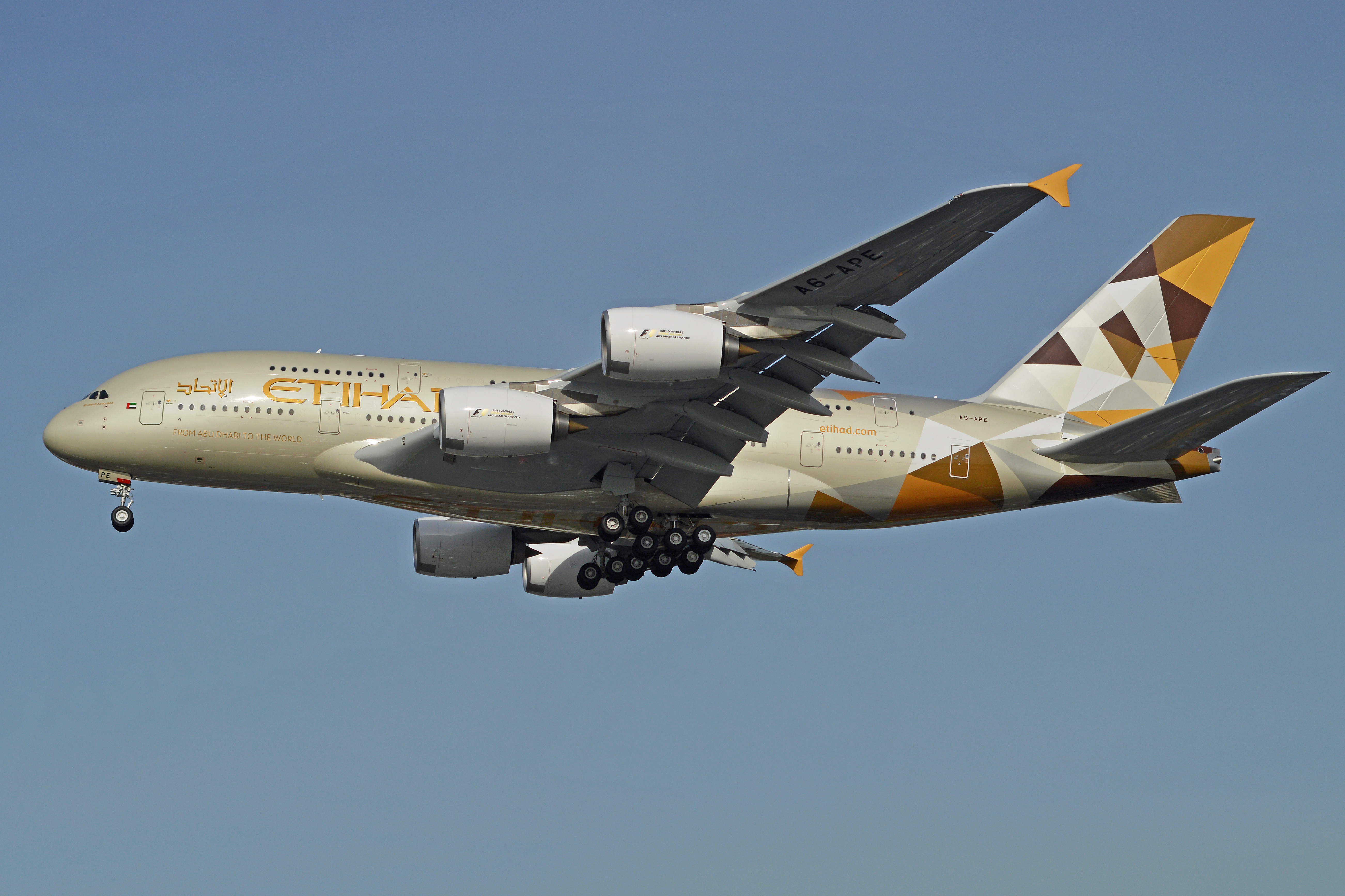 c/n 191. Built 2015 and delivered on 20th October. Five days later it is seen arriving on it's first visit to the UK, while operating flight ETD019 from Abu Dhabi. London Heathrow Airport, UK. 25-10-2015